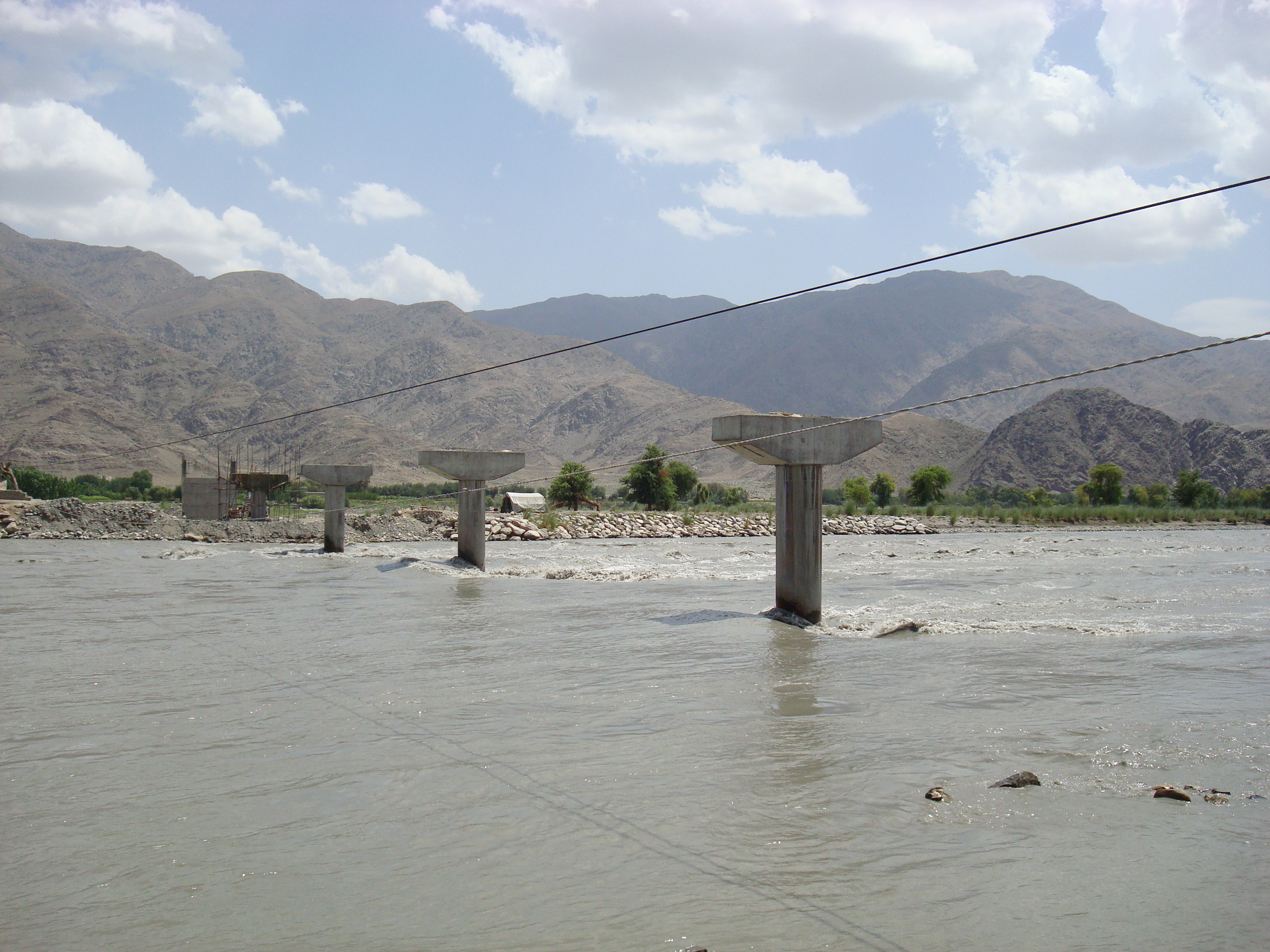 The Guryak Truck Bridge is under construction in the Chapadara District, Konar province, Afghanistan. In all, five bridges are being built in the province and, because of the popularity of the projects, no bridges have suffered attacks from anti-Afghan forces.